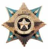 Soviet Order for Service to Homeland 3st class